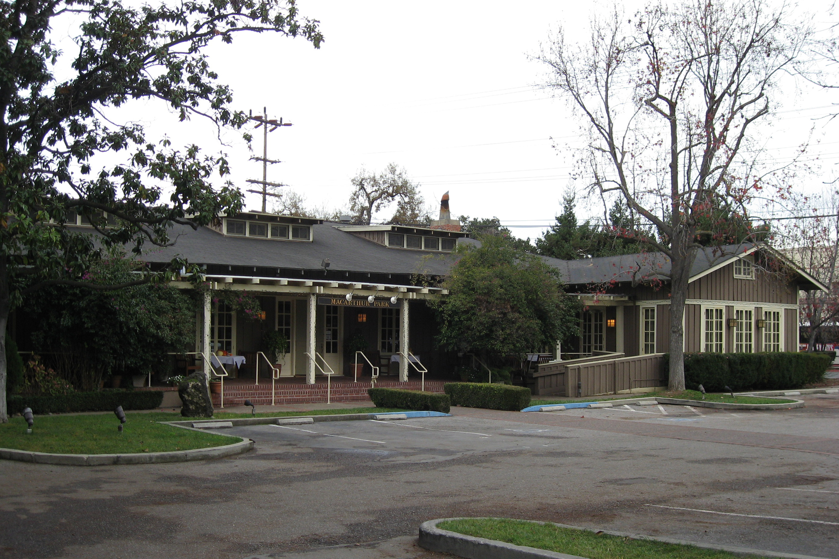 The former Community House in Palo Alto, California, now MacArthur Park restaurant